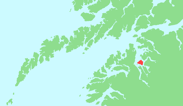 Locator map of Hulløya, Nordland, Norway